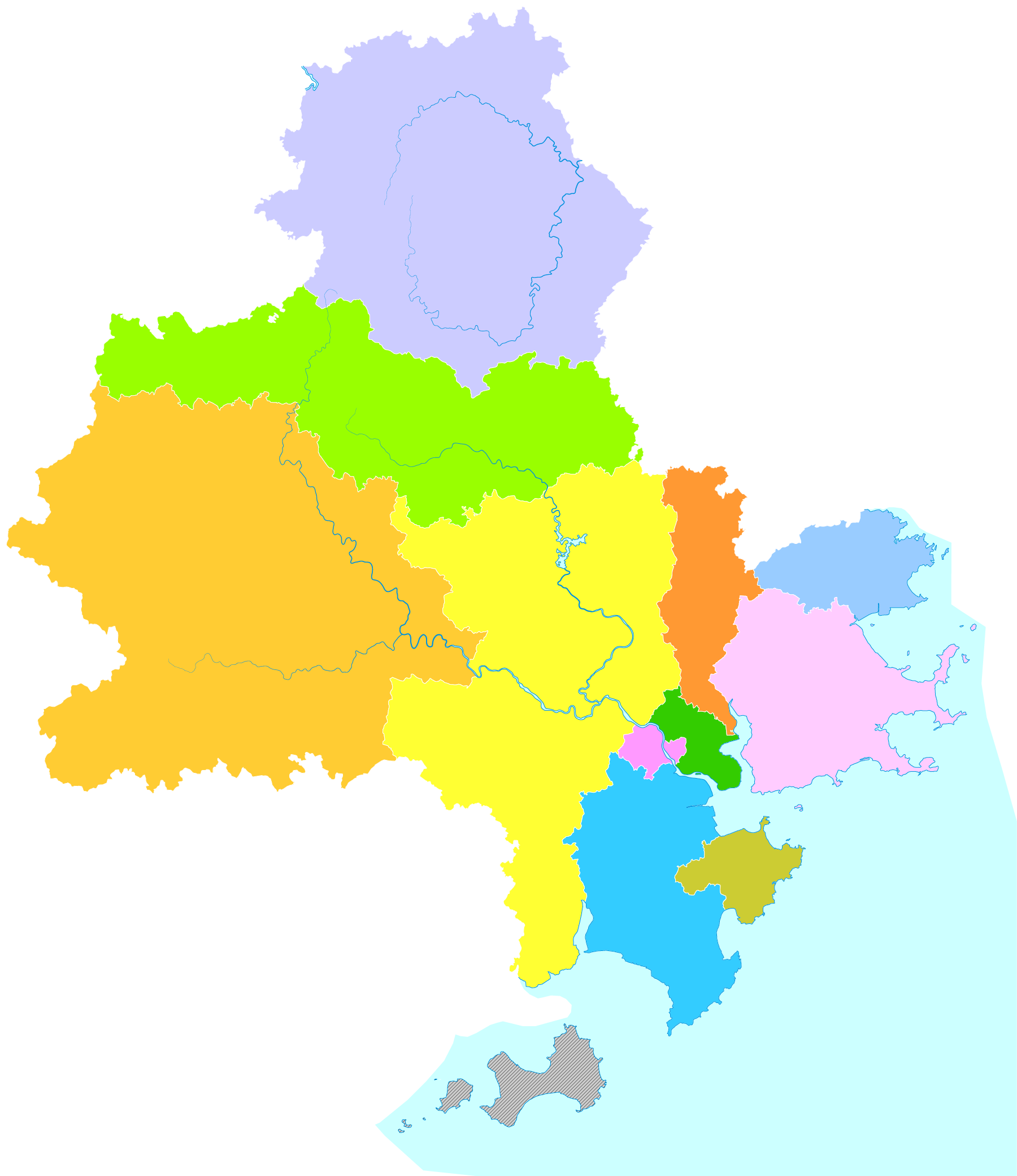 administrative division of Quanzhou City, Fujian, China (Note: The Kinmen Islands make up five of the six townships of Kinmen County, Republic of China (Taiwan). The islands are claimed by the People's Republic of China.)